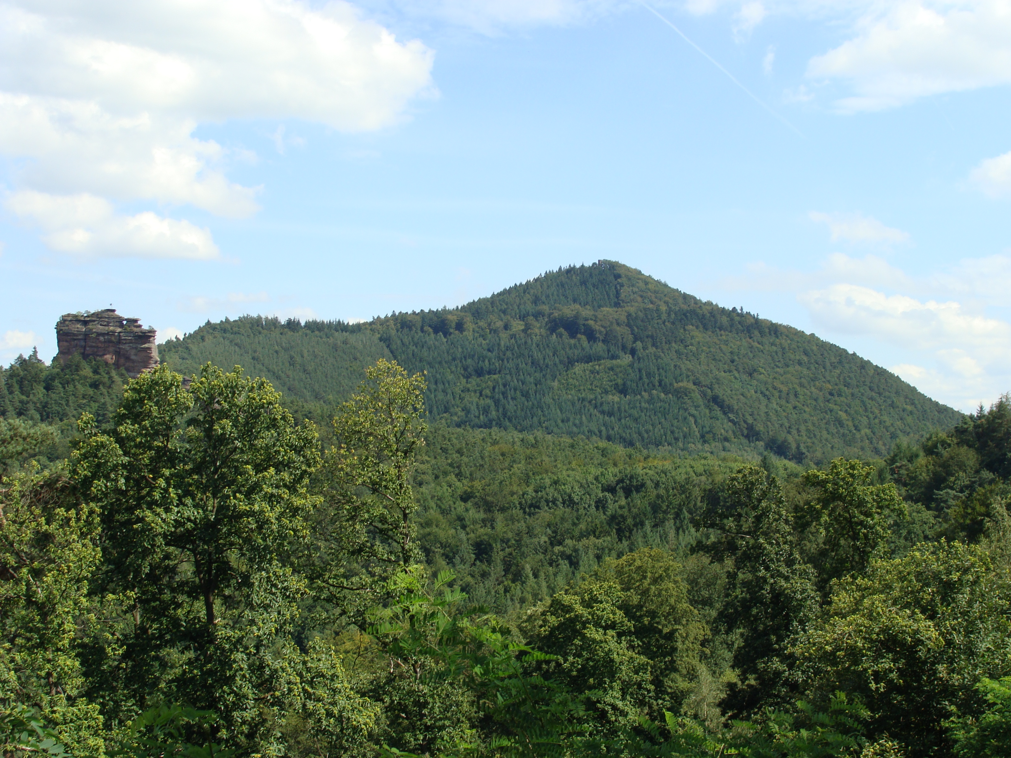 Rehberg mountain in palatinate forest (577 m)